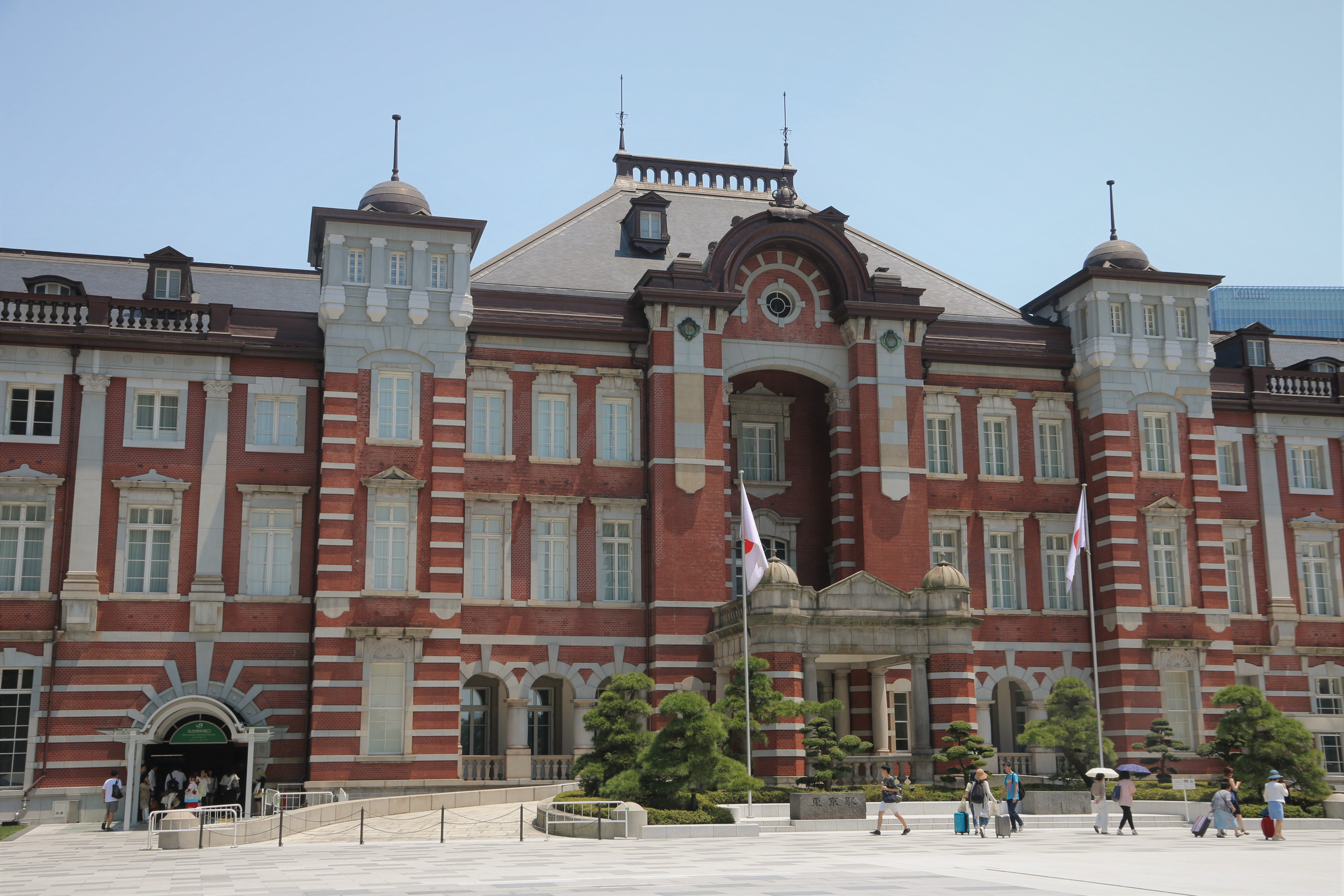 Tokyo Station Marunouchi Building